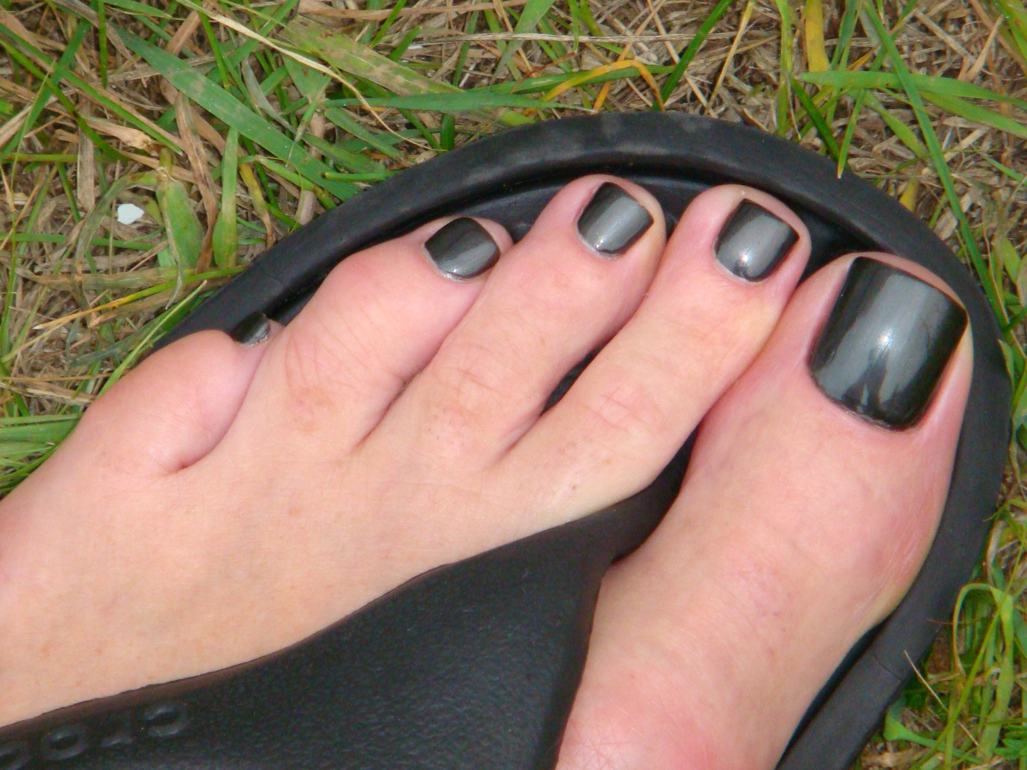 my toes